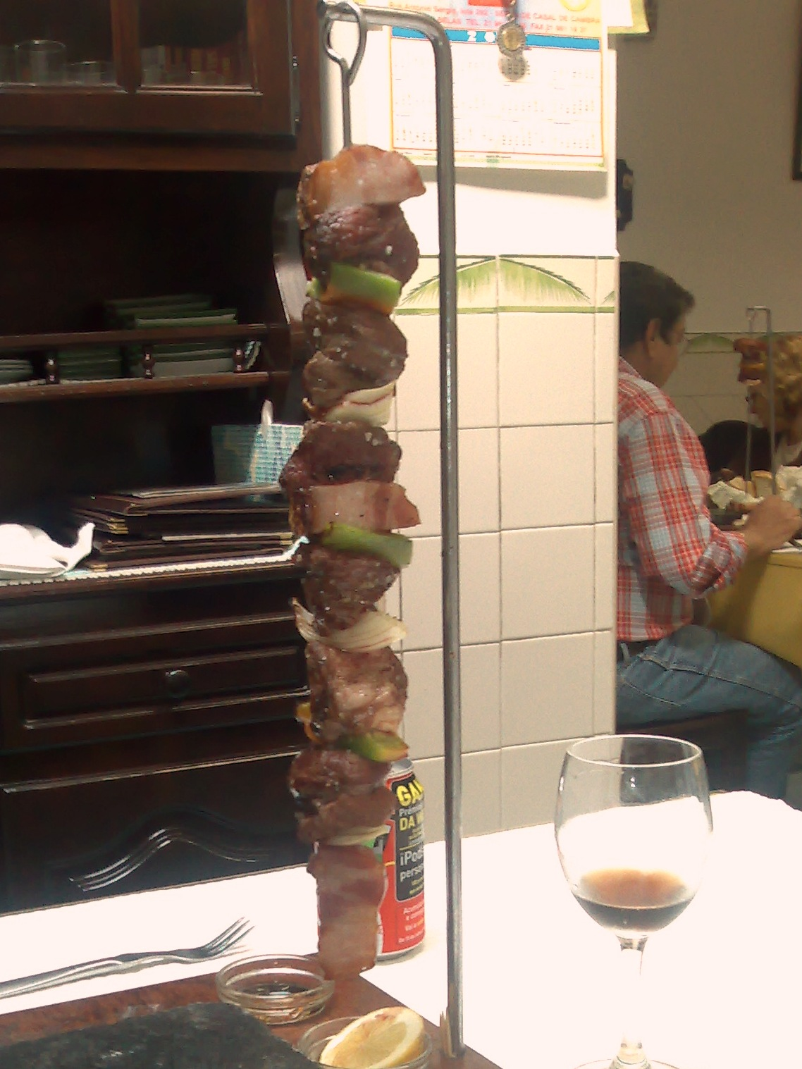 Beef "espetada" (portuguese skewer).